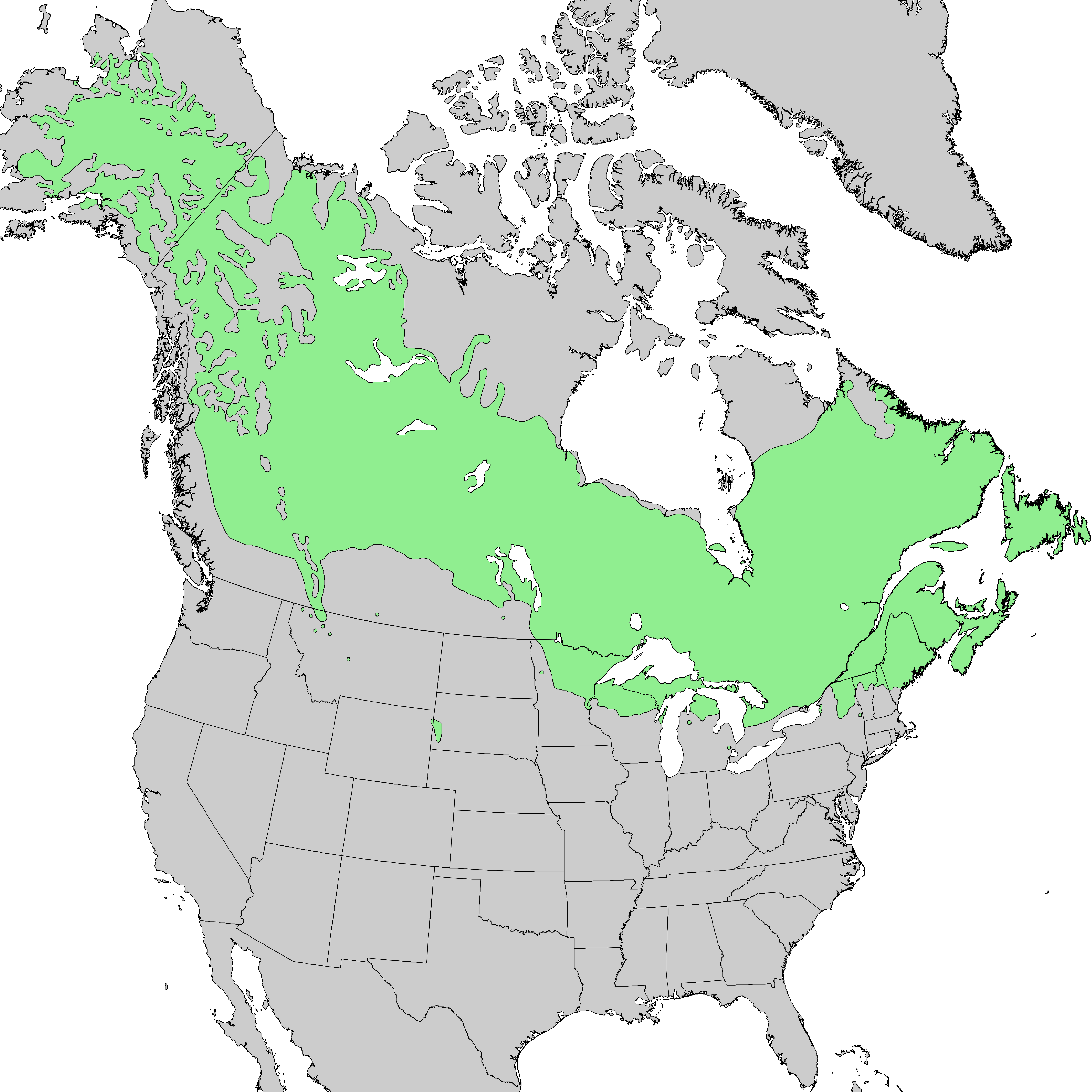 Natural distribution map for Picea glauca